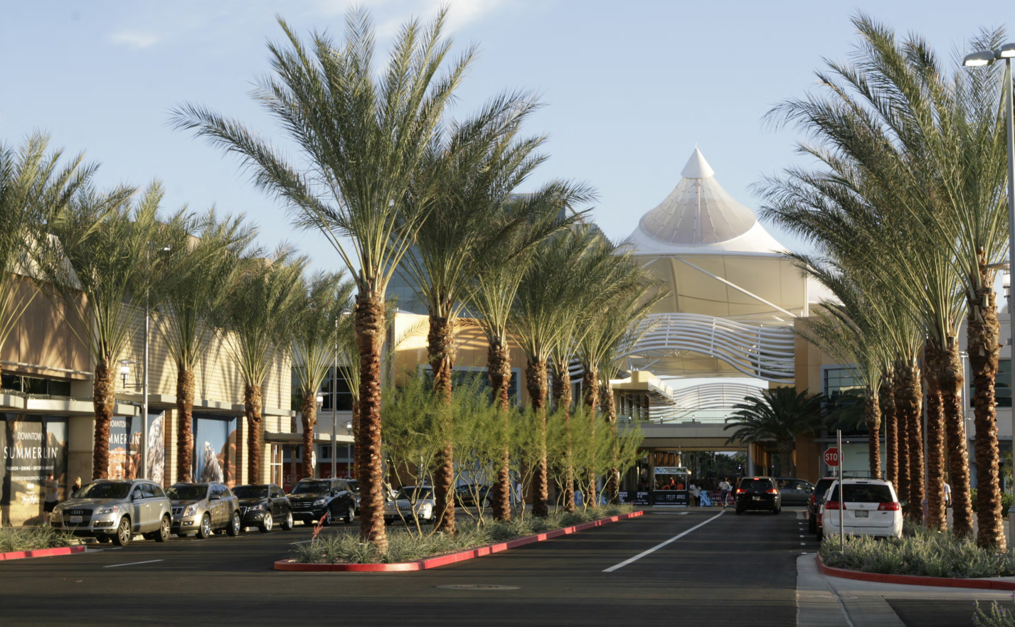 Downtown Summerlin, Las Vegas, Nevada